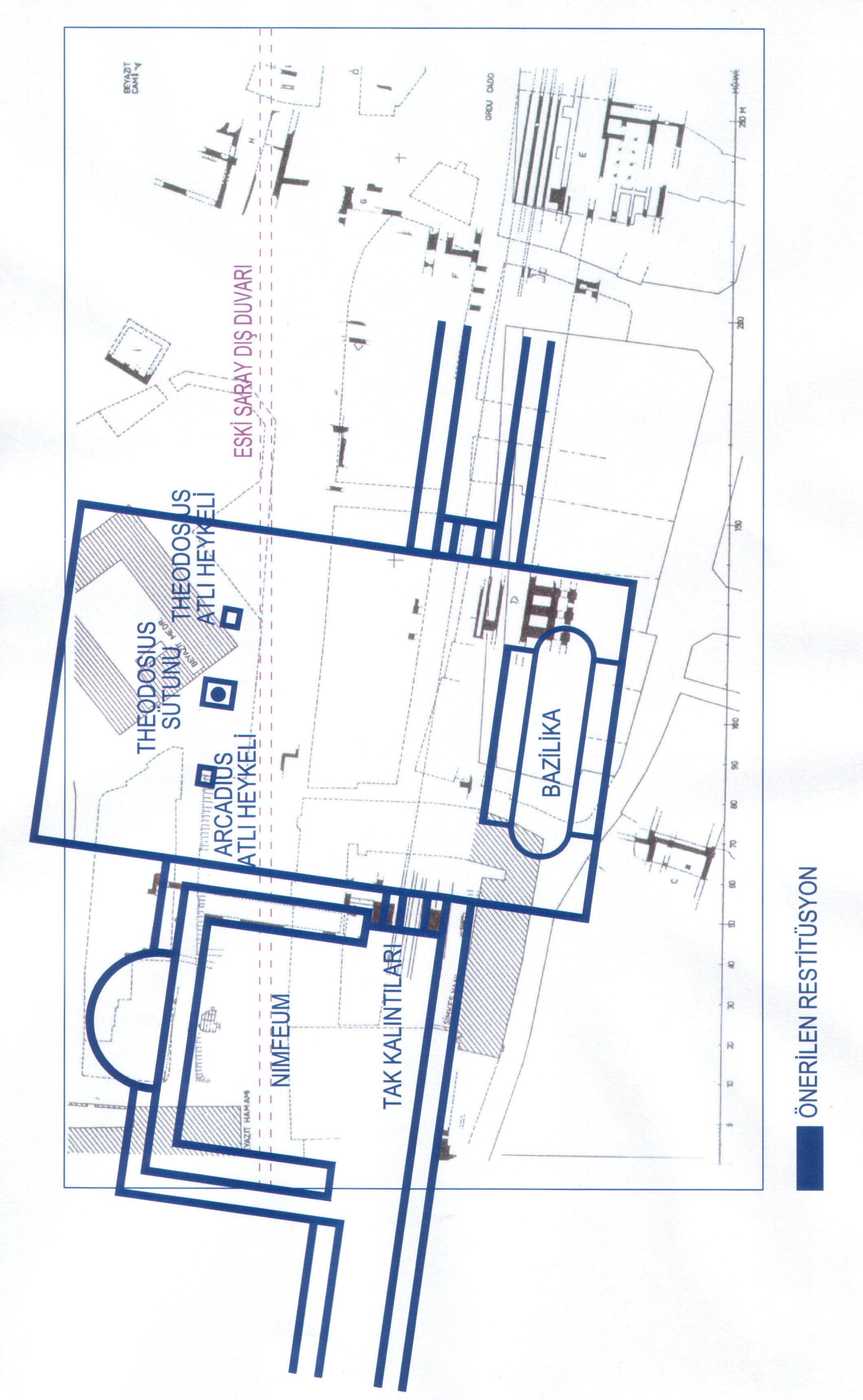 The reconstitutiton of the Byzantine Forum Tauri overlaid onto a map showing the remains.